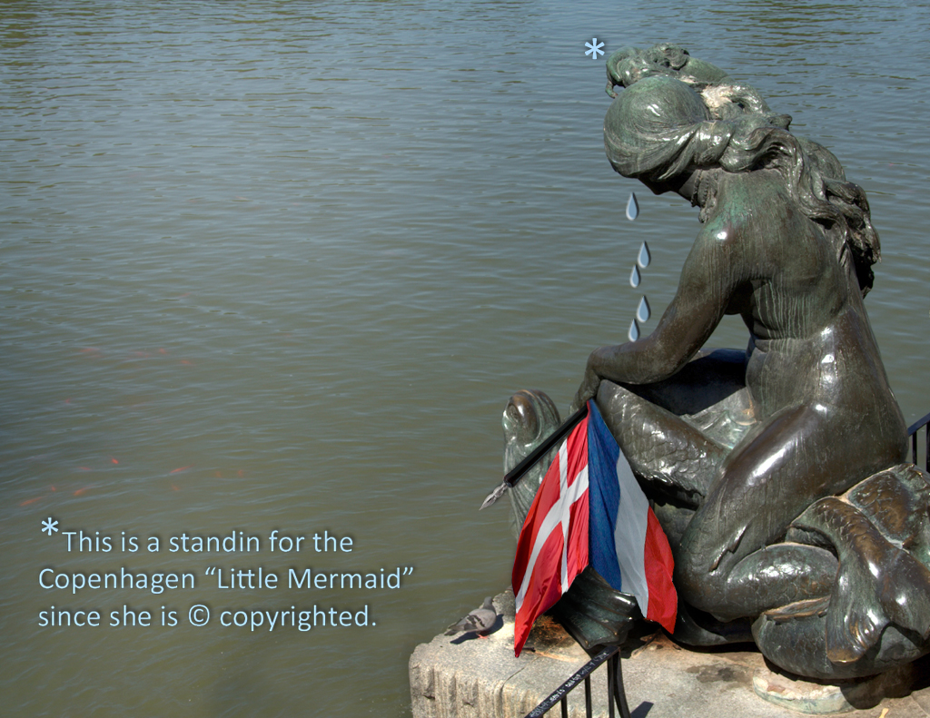 A collage of pictures symbolizing the 2015 Copenhagen attacks